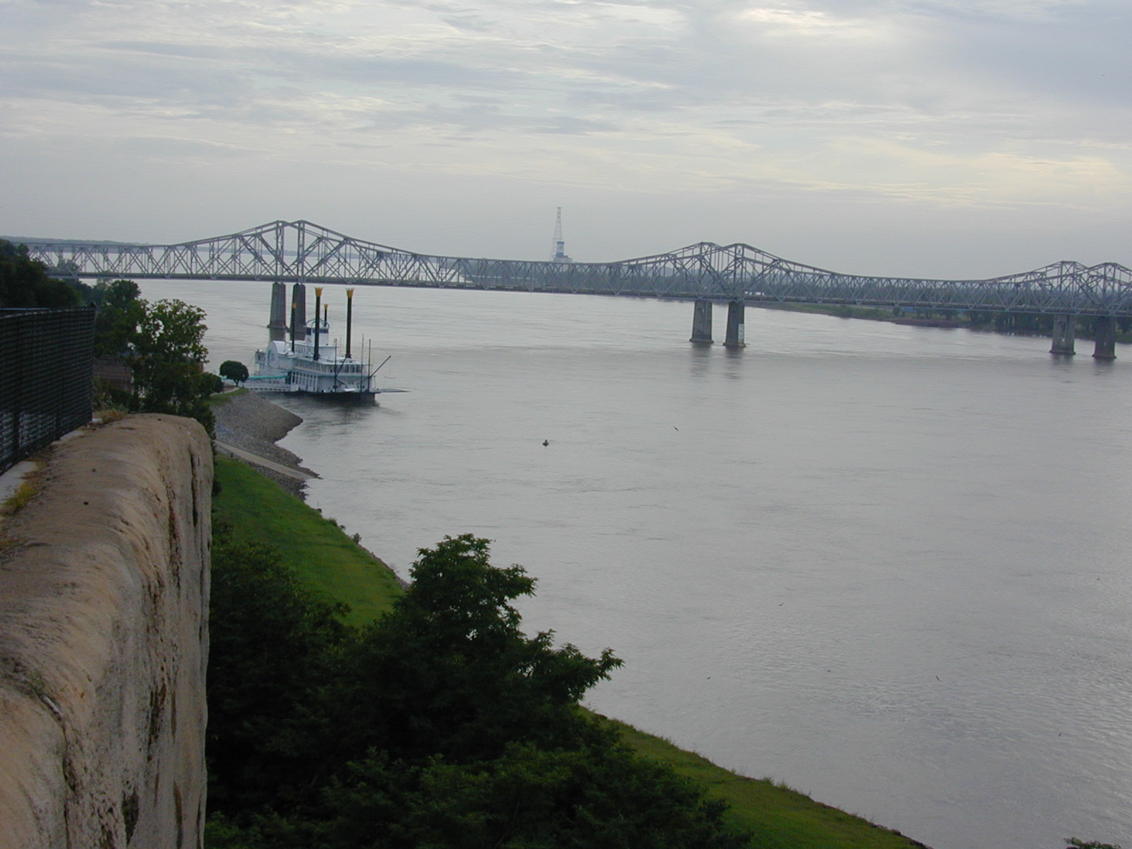 Bridge leading US Highway 84 across the Mississippi in Natchez, Miss. Credits Photo by Jan Kronsell, 2002.